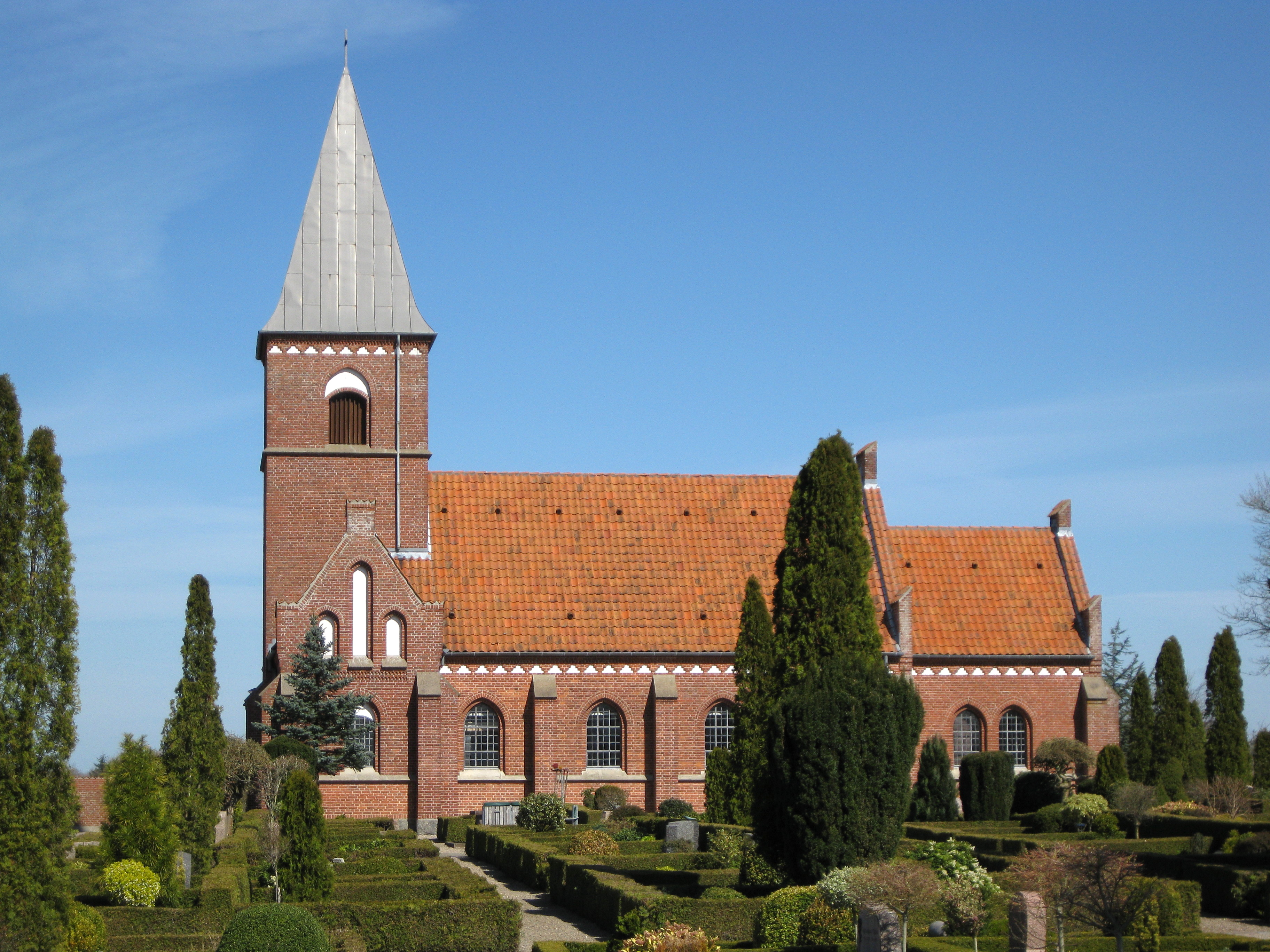 The church "Hjallerup Kirke" nearby the small town "Hjallerup". The church is located in North Jutland, Denmark.